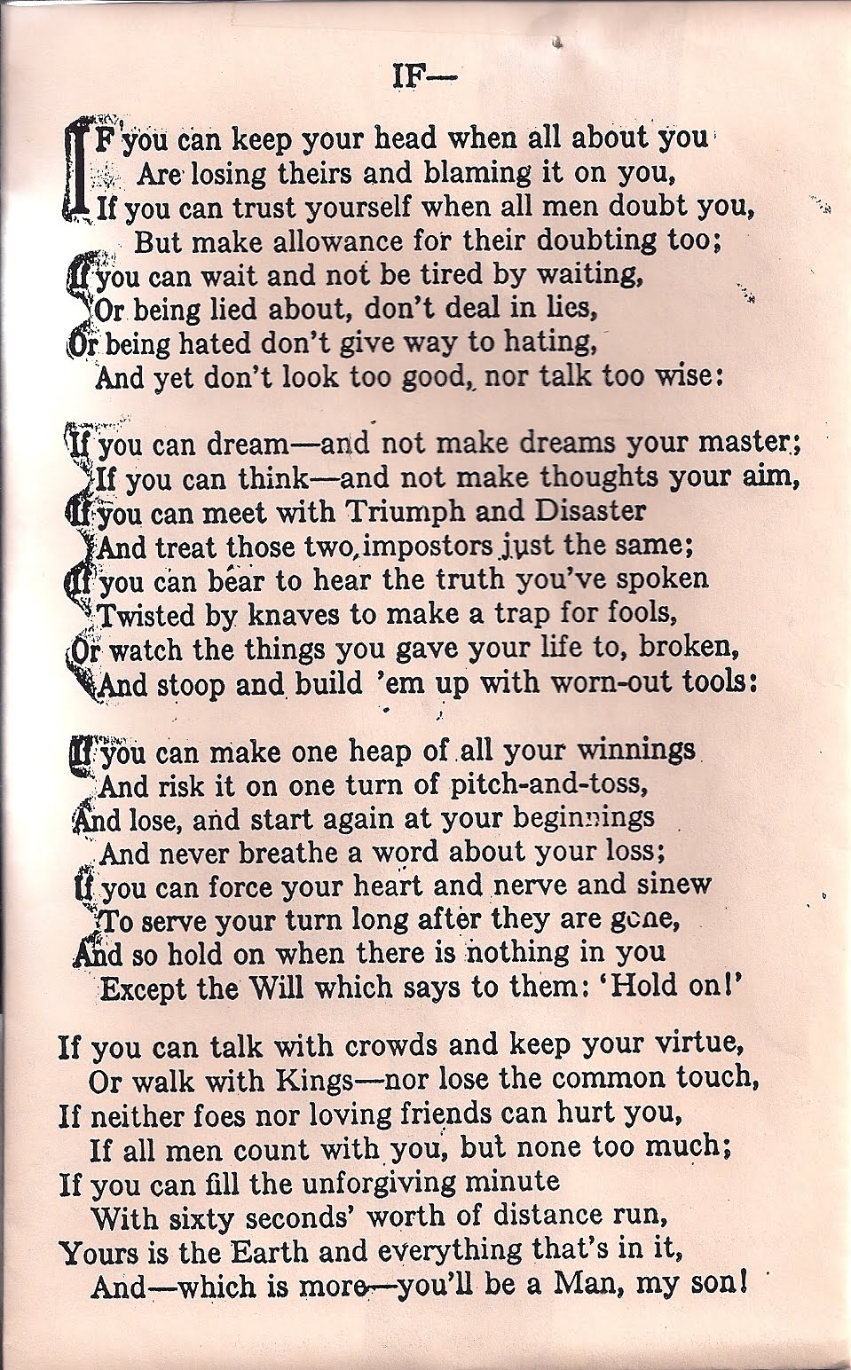 The poem 'If' by Kipling